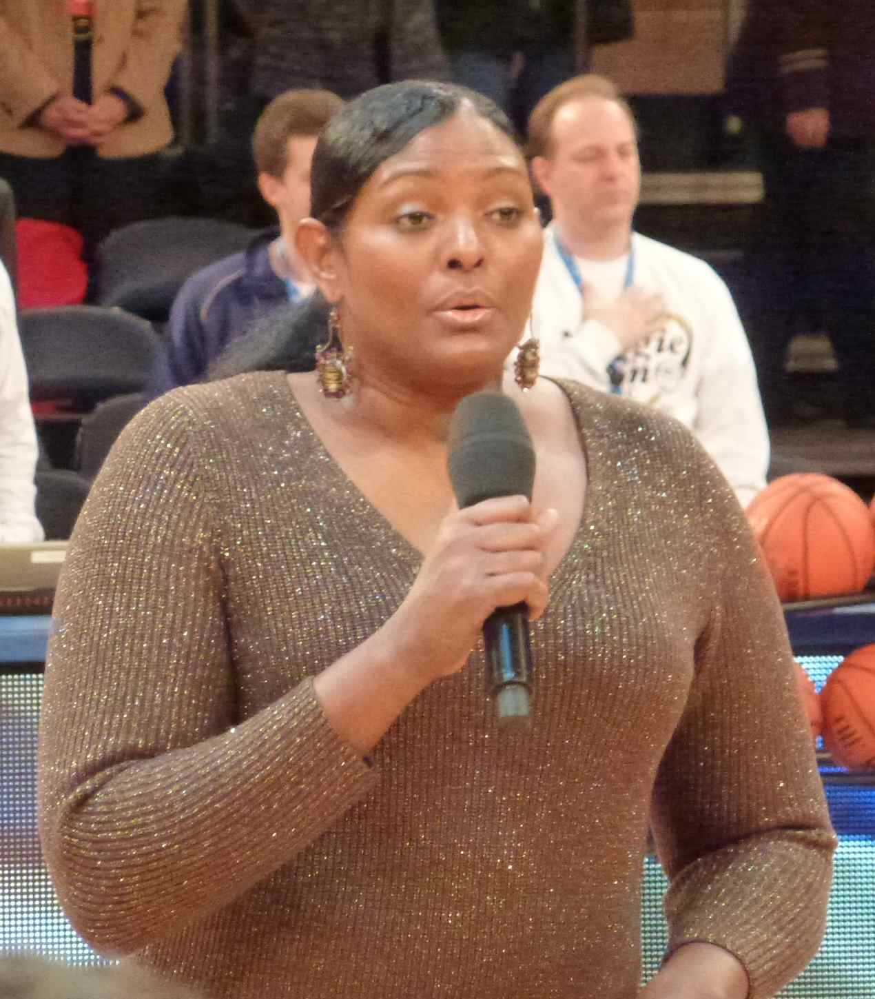 Kym Hampton, singing the national anthem in Madison Square Garden at the 2012 Maggie Dixon classic, 9 December 2012